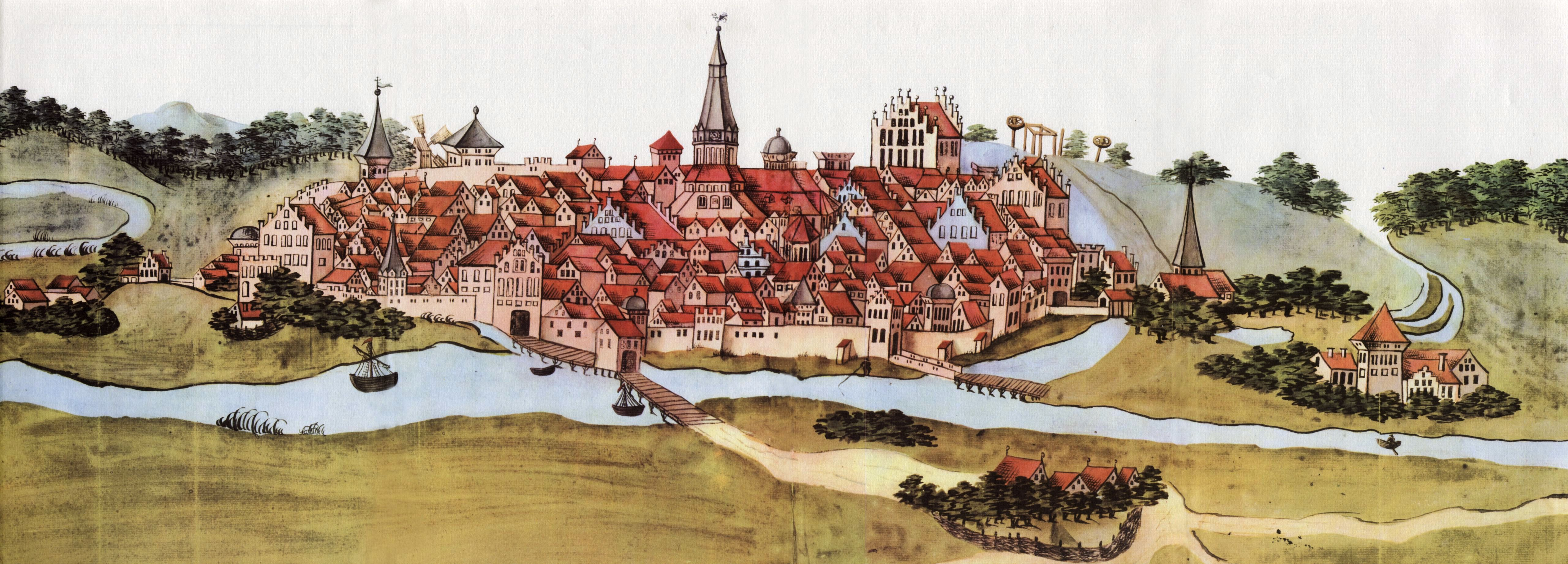 Cityview of Demmin from the "Stralsunder Bilderhandschrift"